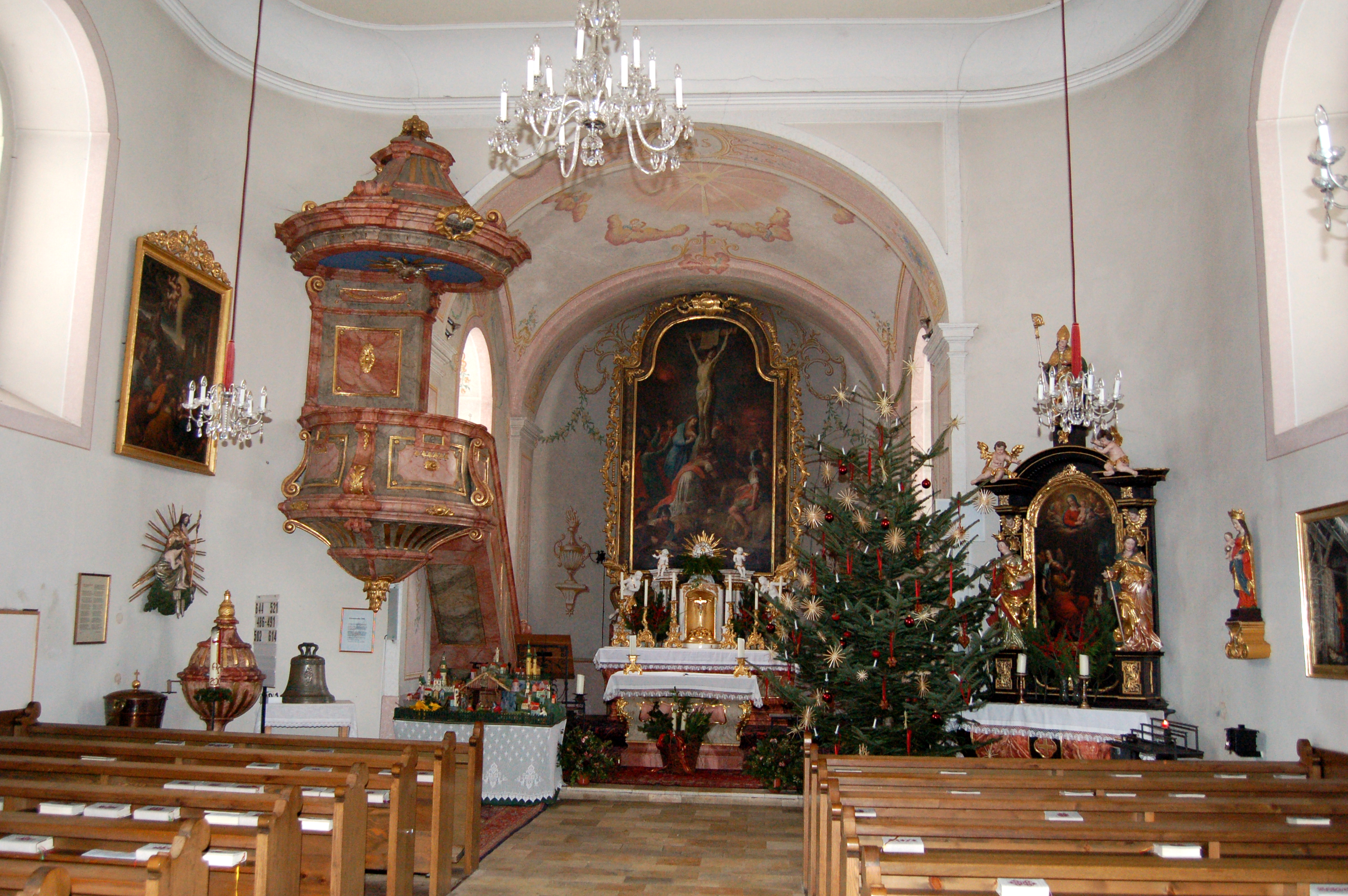 Parish church Kreuzerhöhung in Hinterstoder, Upper Austria (1787). Interior.